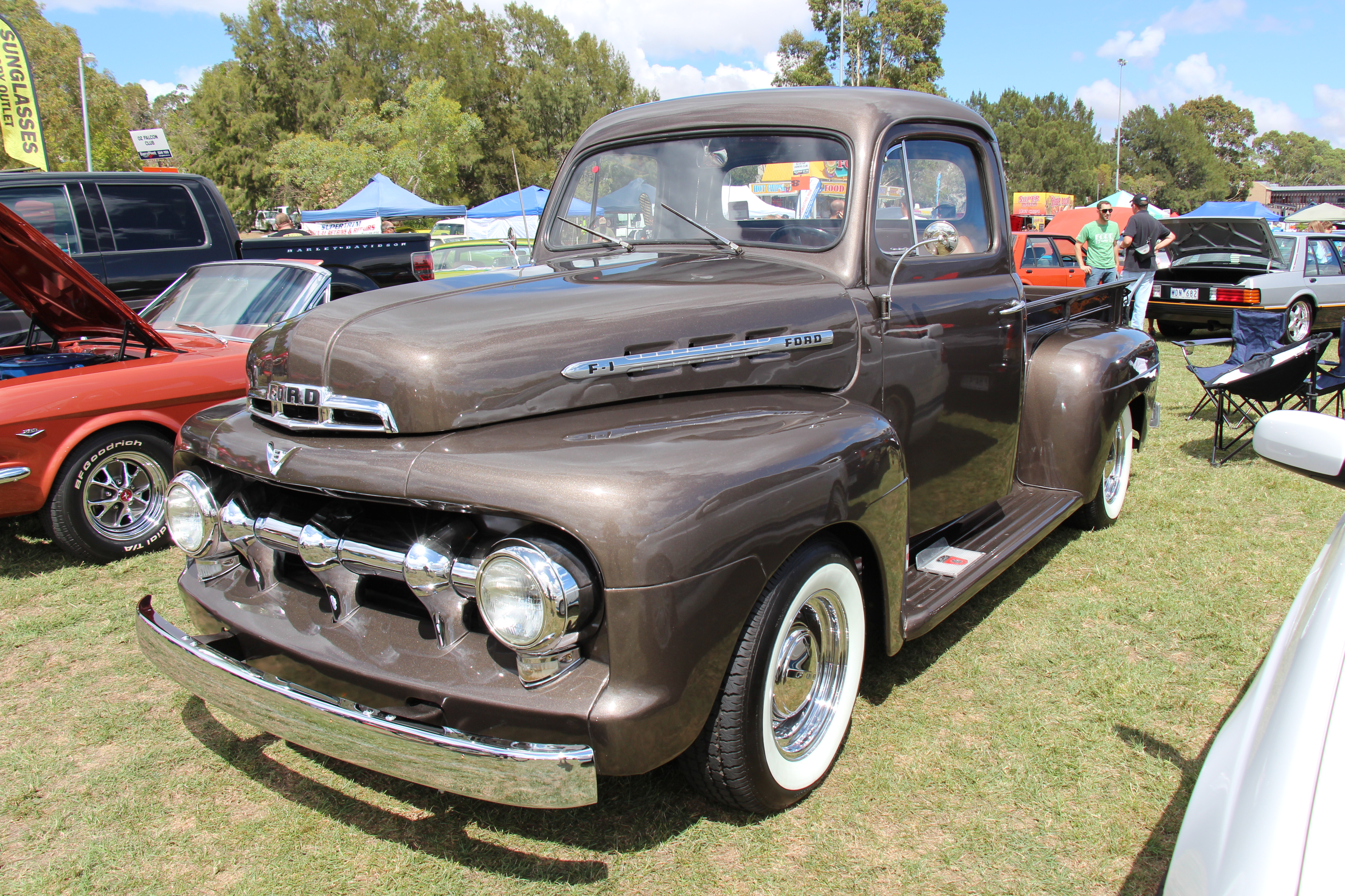 The first F-Series truck was introduced in 1948 as a replacement for the previous car-based pickup. The F-Series was the predecessor for the F100. The styling was changed again for the 51/52 trucks, the headlights were connected by a wide aerodynamic cross piece with three similarly aerodynamic supports and the dashboard was redesigned. Available in standard Five Star Cab or deluxe Five Star Extra Cab. The 52 truck was very similar to the 51, the V8 emblem moved from above the grille, up into the chrome embellishment on the hood. Engines; 226 6 cyl or 239 Flathead V8